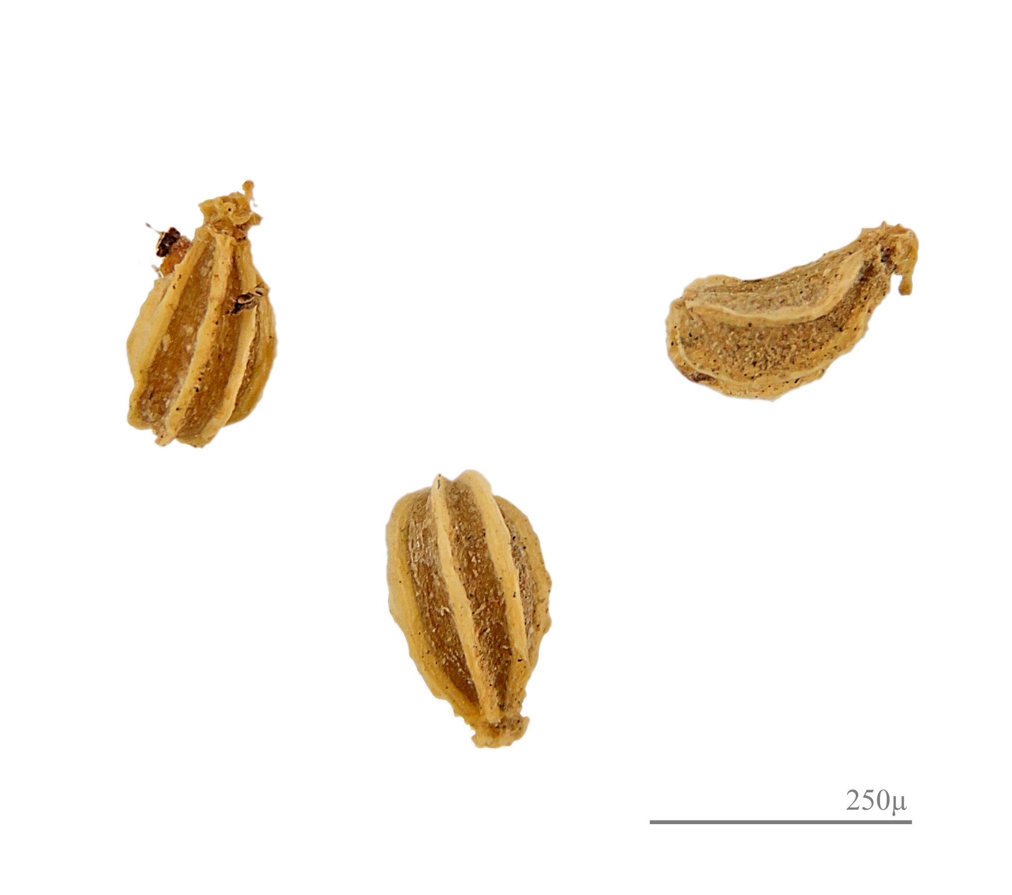 Poison Hemlock, fruits